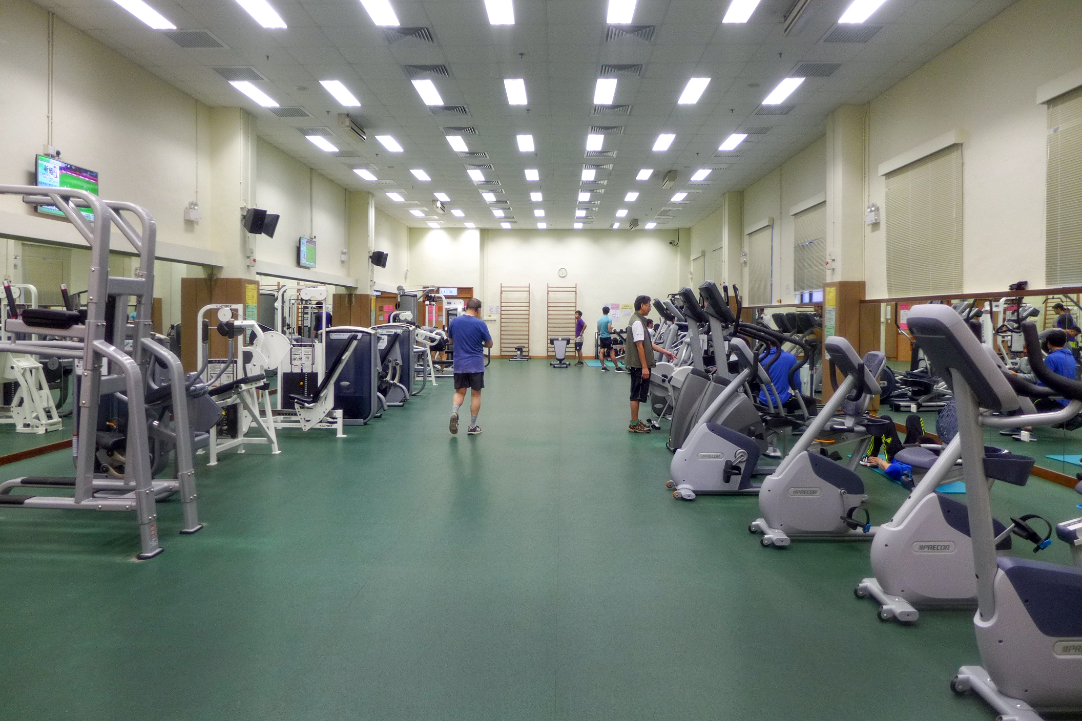 Smithfield Sports Centre Level 4 Gym Room